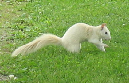 White squirrel, photographed in Exeter Ontario. The white colour is a result of a genetic mutation, not albinism. (See Rare white squirrel on the mend at Toronto Wildlife Centre by Valerie Hauch at Toronto Star, 27 September 2012